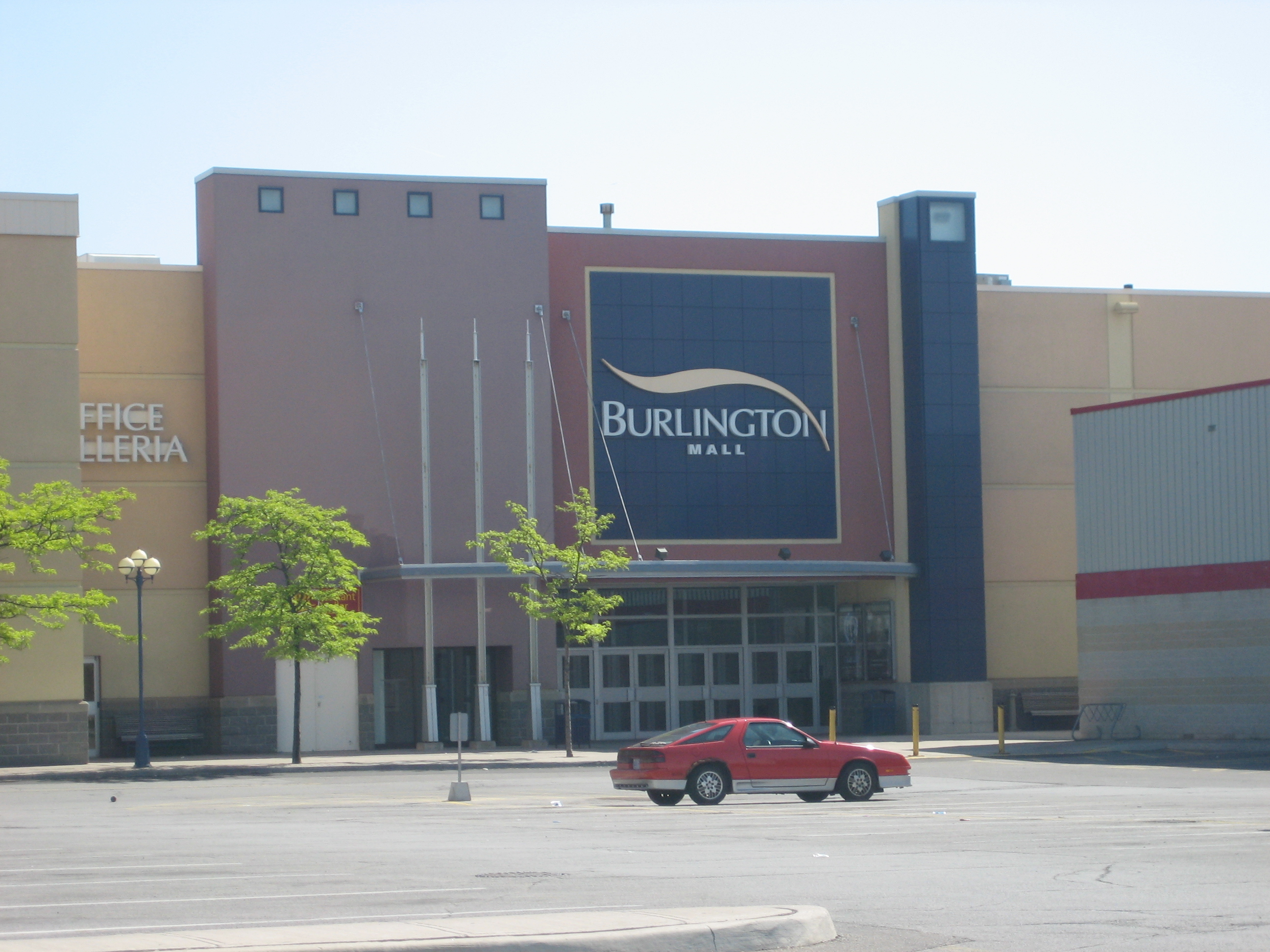 The picture is of the Burlington Mall in Burlington, Ontario Canada. The photo was taken by Andrew Lynes, on May 21, 2007. It was taken for use in the Burlington, Ontario article.